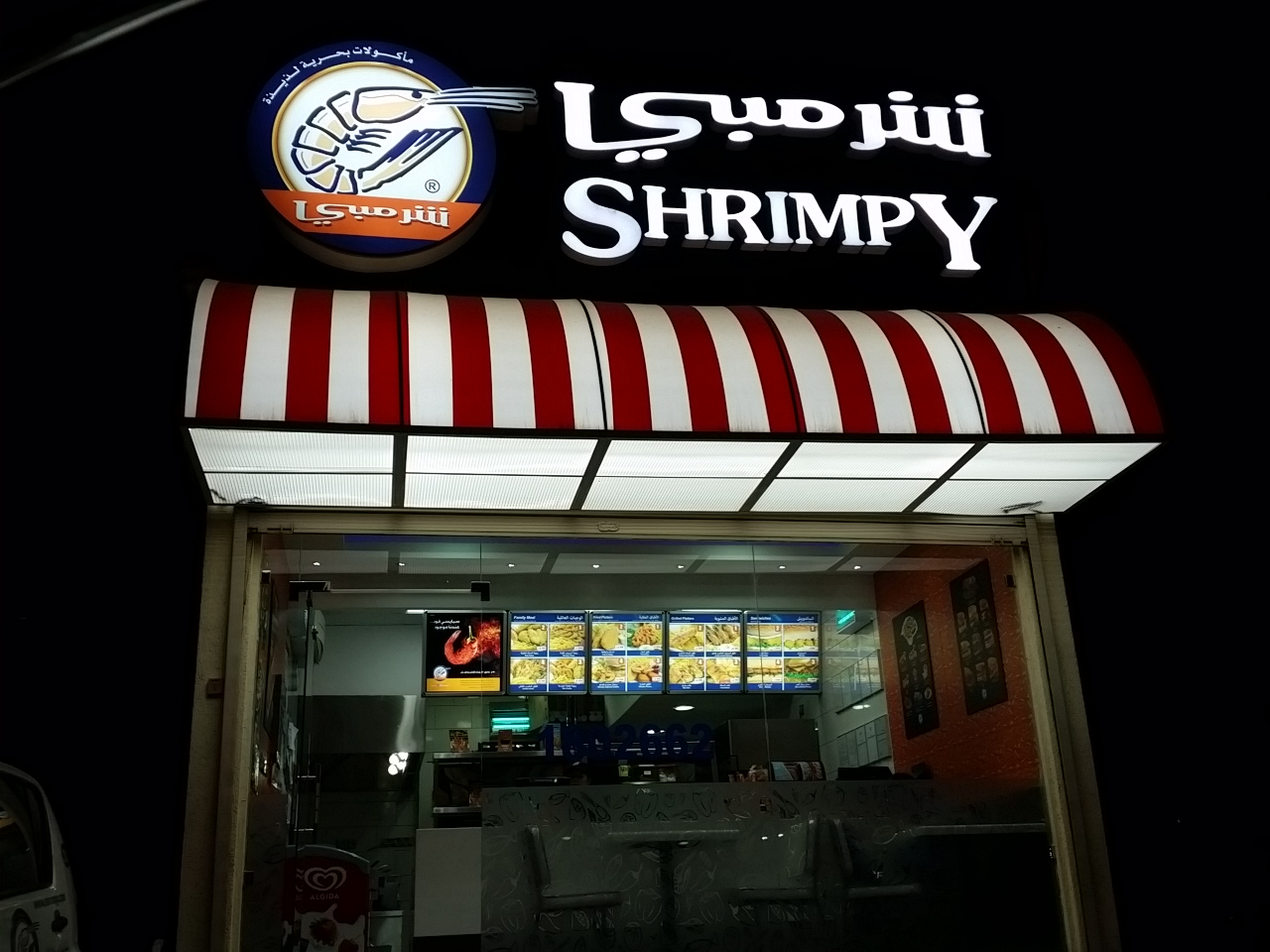 Shrimpy sea fast food restaurant in Jabriya, Kuwait